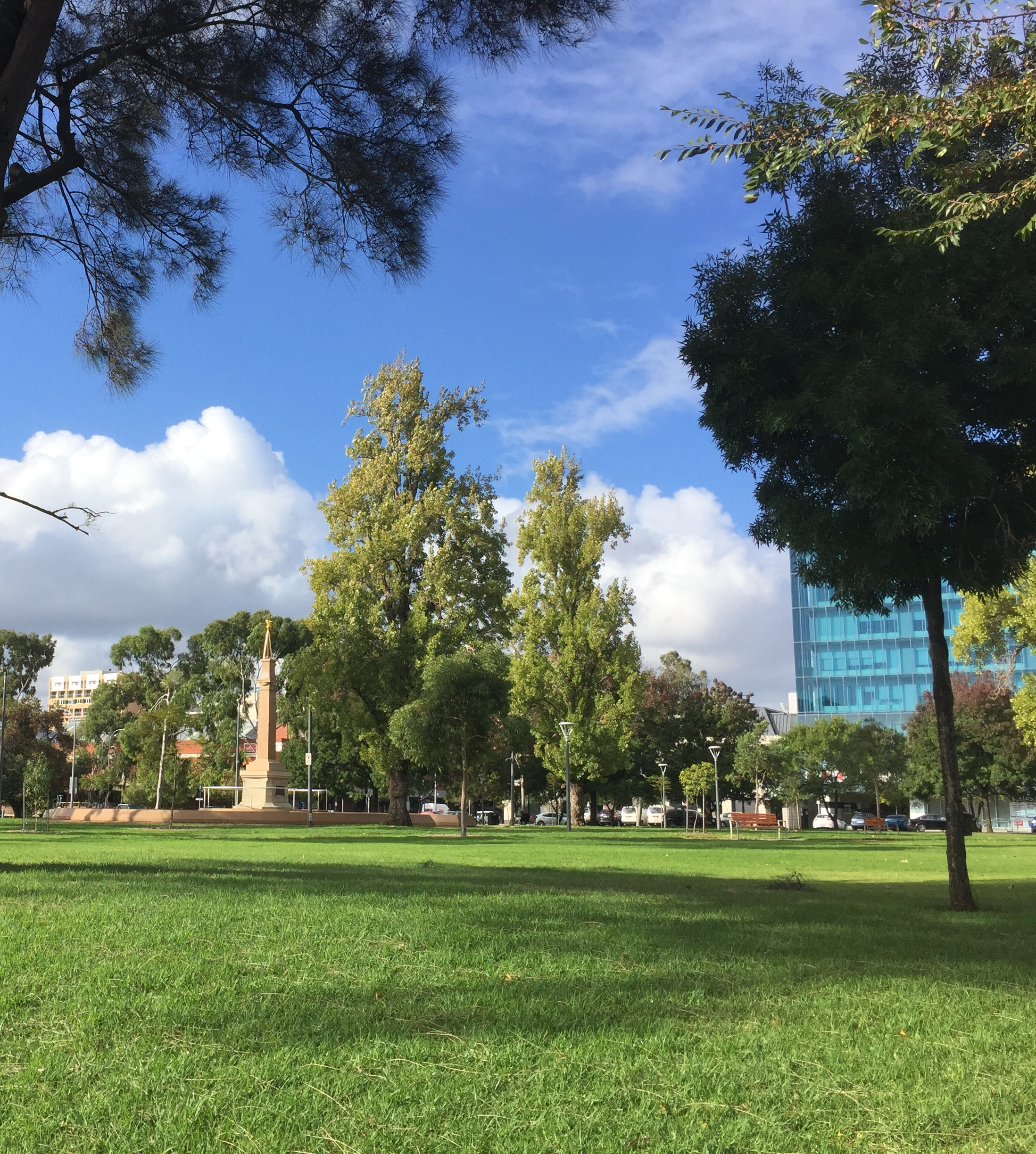 Light Square, Adelaide, South Australia.